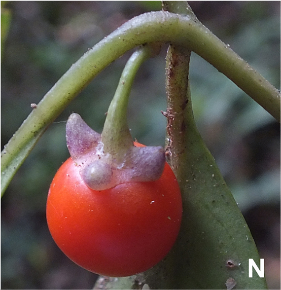 Part N of Fig 4. Capsicum longifolium Barboza & S. Leiva. (A) Plant. (B) Internode with lenticels. (C, D) Flower buds. (E) Flower, longitudinal section. (F) Flowers showing corolla yellow with brownish center. (G) Same flower as in F, lateral view. (H, I) Flowers with completely yellow corollas, upper and lateral view, respectively. (J, K) Flowers with yellow corollas with red-brown edges, upper and lateral view, respectively. (L, M) Immature fruits. (N) Mature fruit. Photos by S. Leiva González and G. E. Barboza.